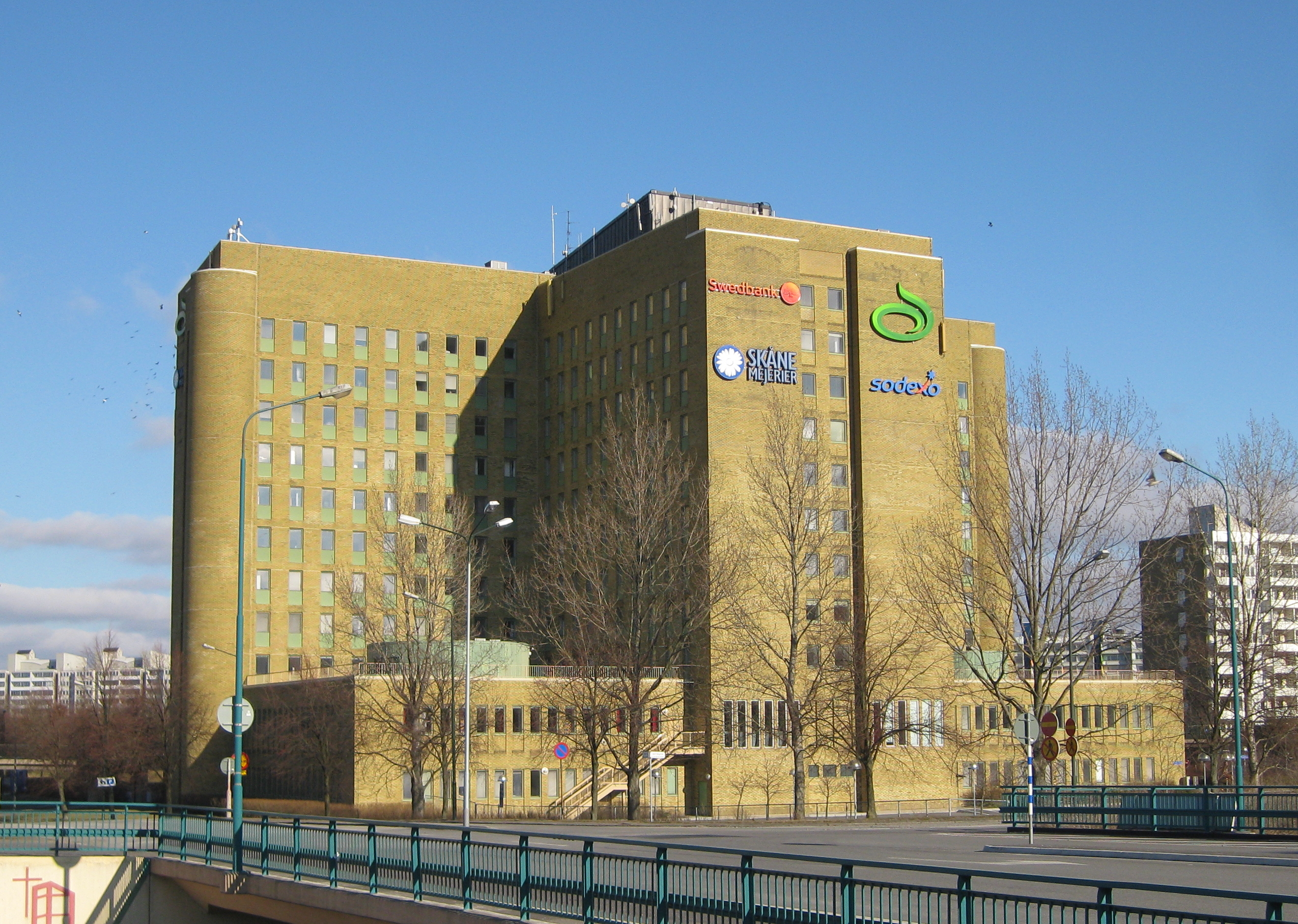 The Tre Skåne building in Rosengård, Malmö, Sweden